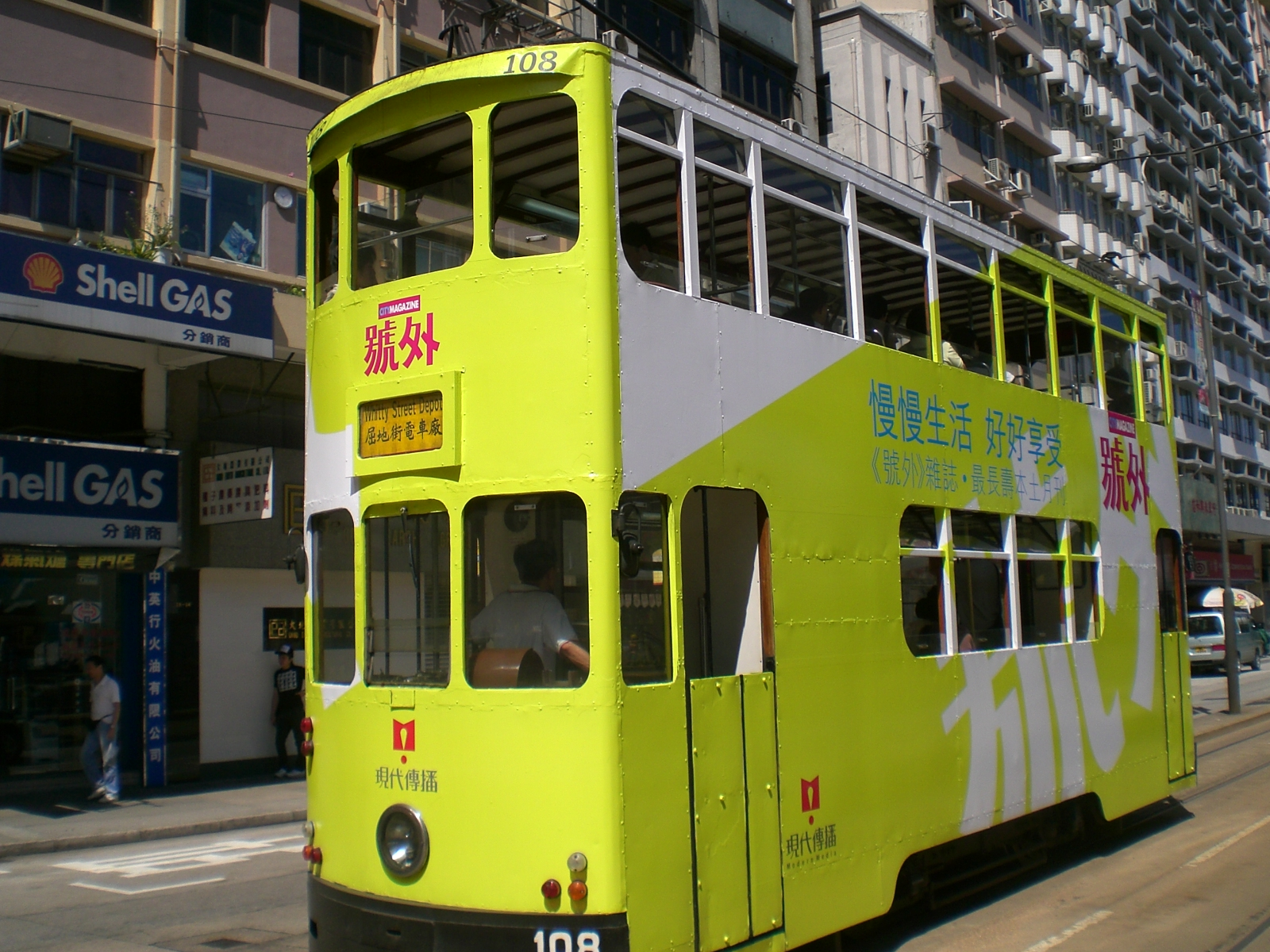 Hong Kong Tramways